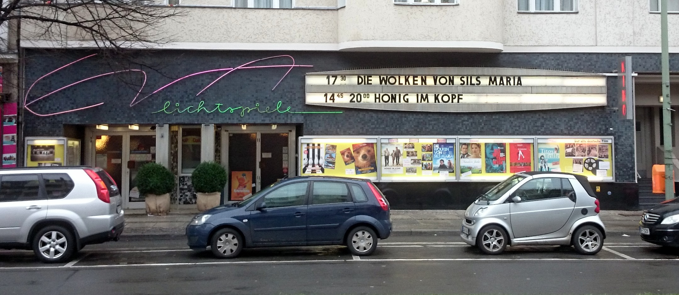 Berlin in spring